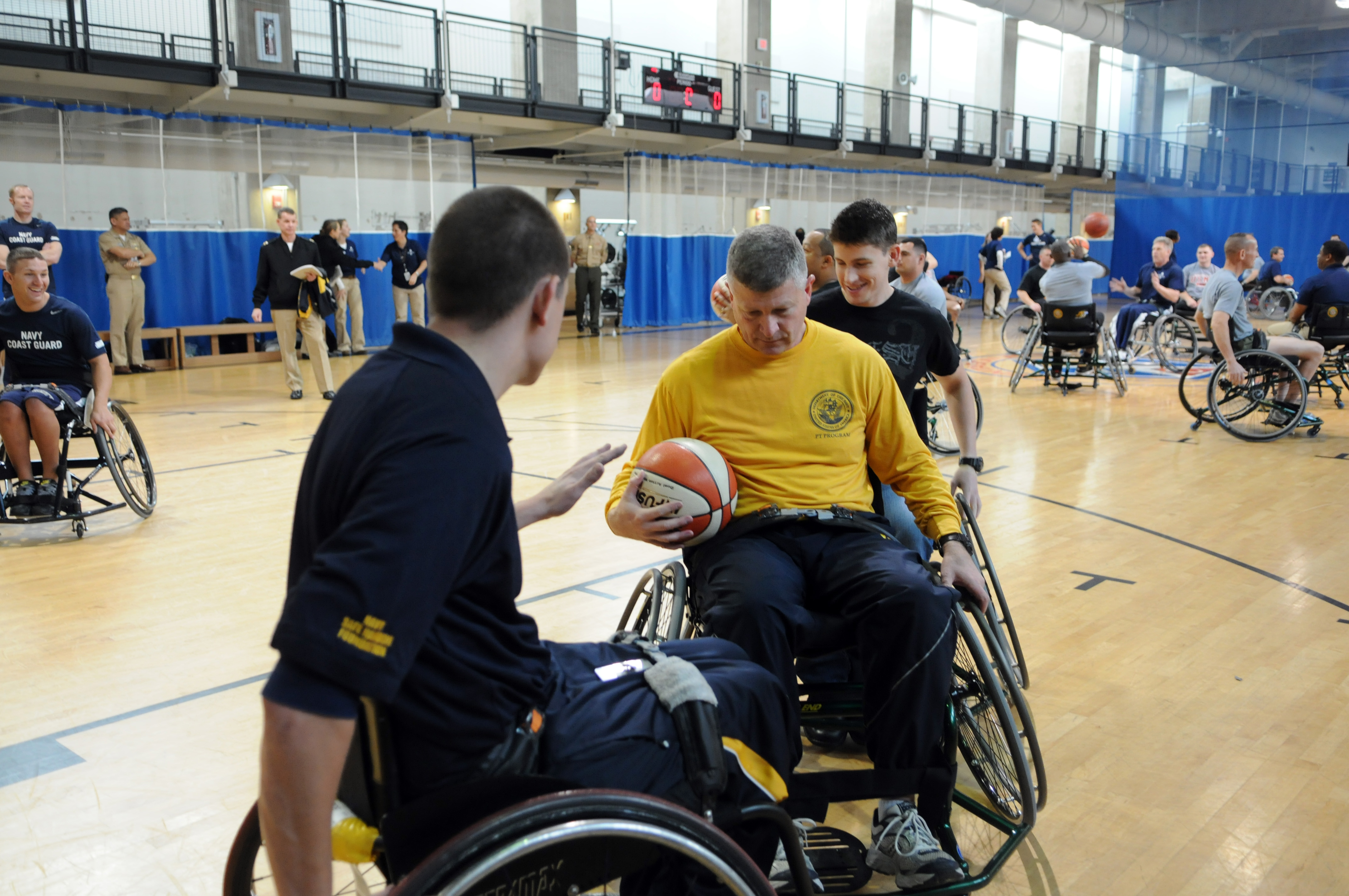 WASHINGTON (Nov. 18, 2011) Master Chief Petty Officer of the Navy (MCPON) Rick D. West received a quick tutorial before the Navy Safe Harbor Wheel Chair Exhibition at the Pentagon Athletic Center. (U.S. Navy photo by Mass Communication Specialist 1st Class Abraham Essenmacher/Released)